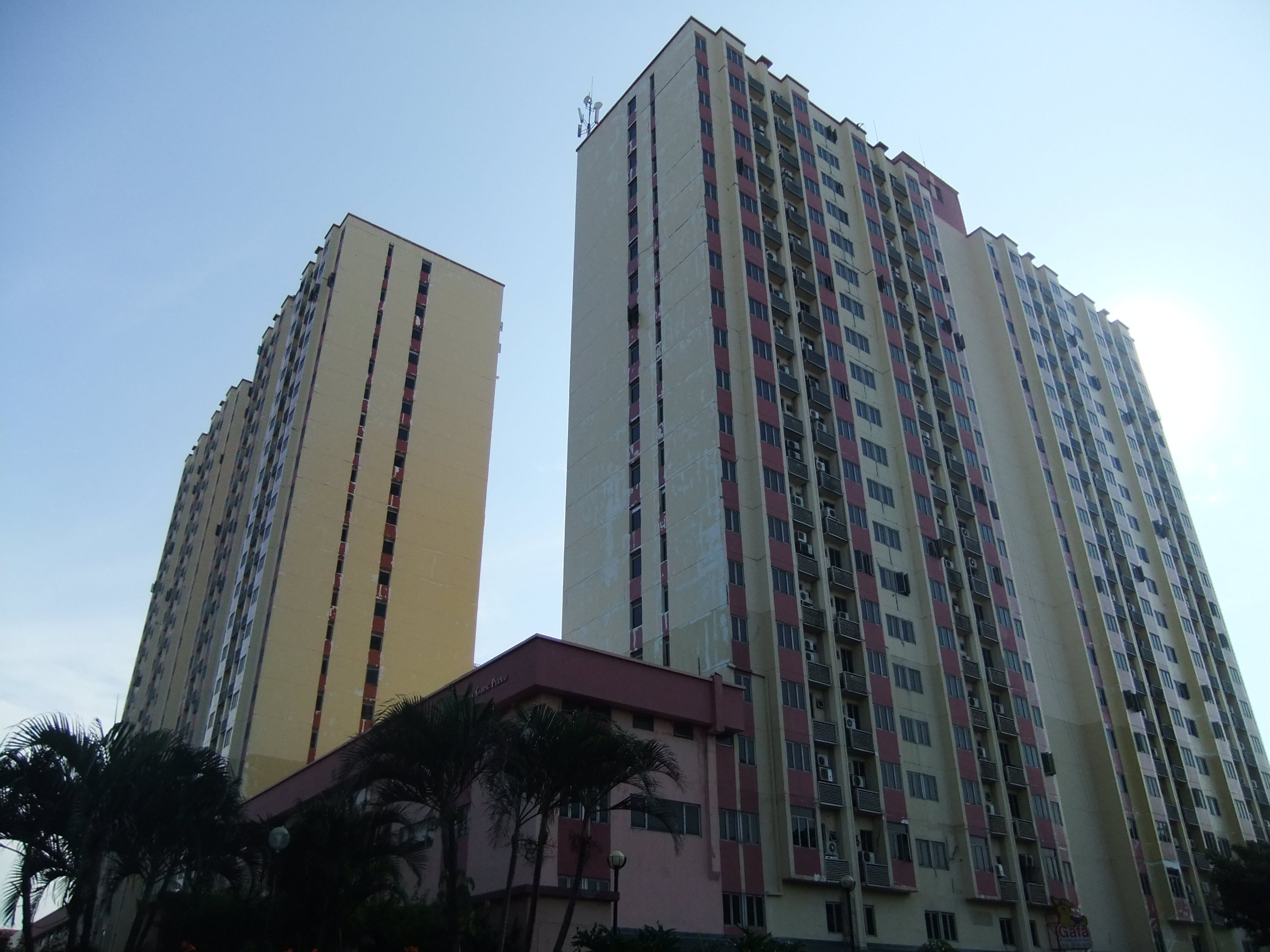 Kelapa Gading Apartment, Jalan Boulevard Kelapa Gading, Jakarta